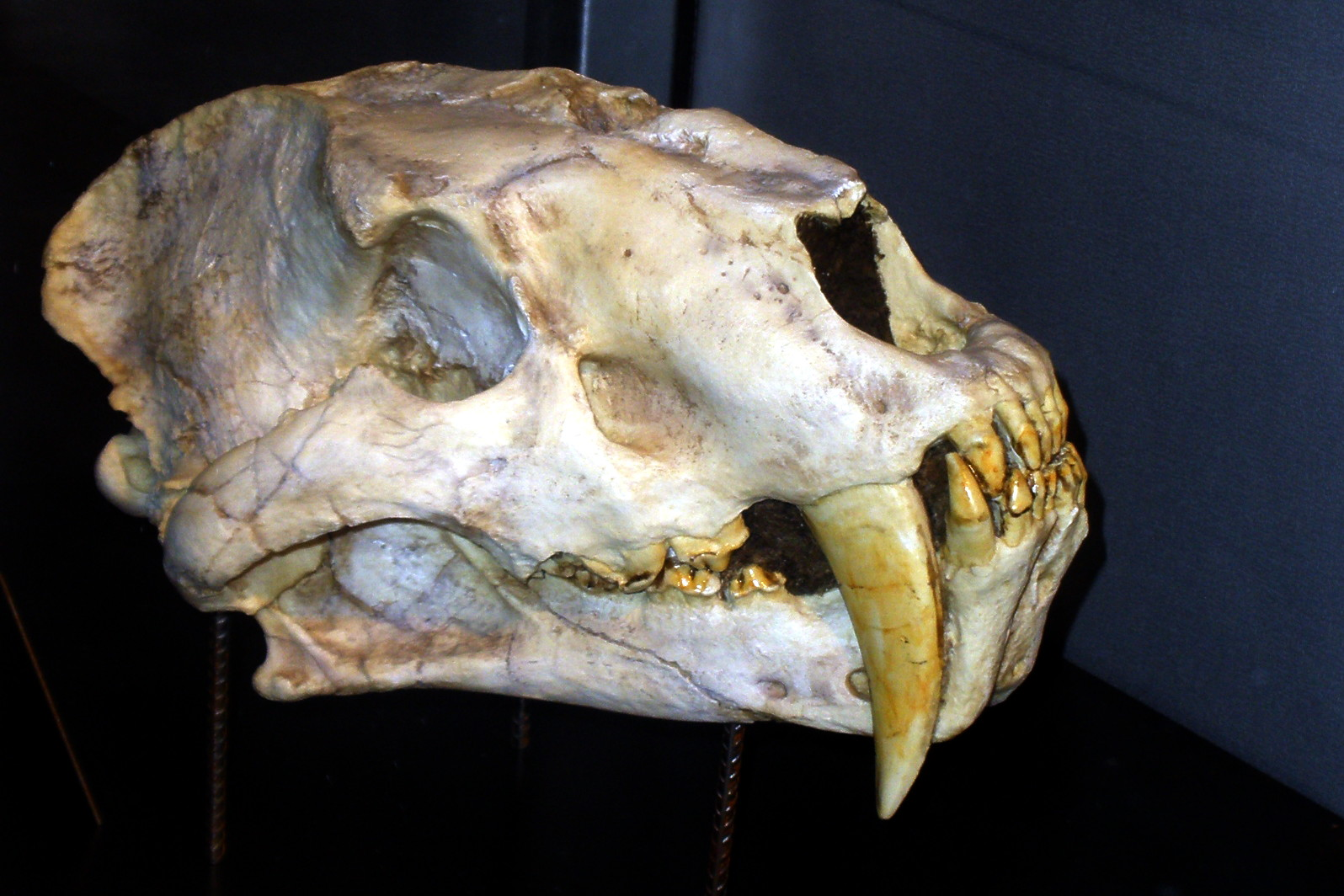 skull of Machairodus giganteus, an extinct felid